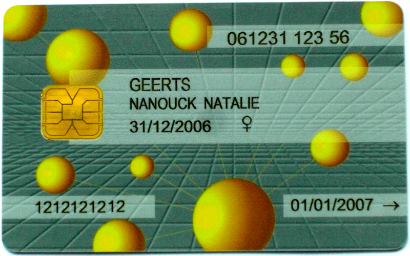 Belgian SIS card (social security card). SIS stands for Social Information System.